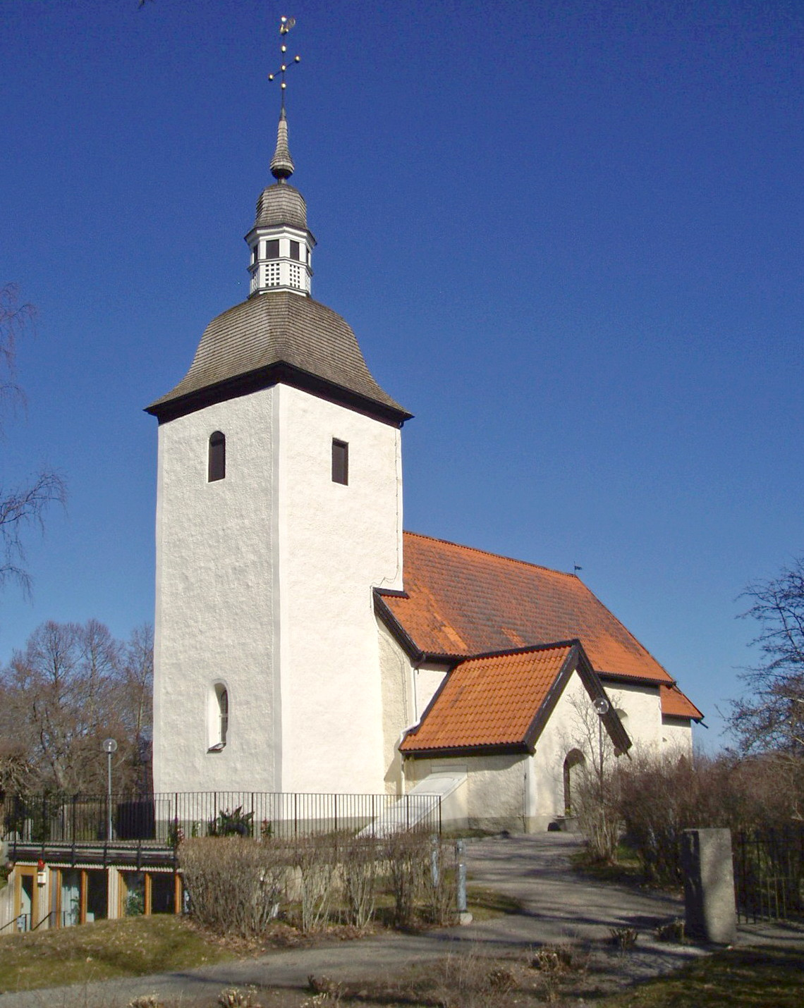 Tveta church at Södertälje, Sweden